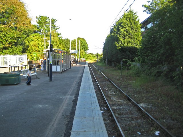 St Albans Abbey railway station Original description: St Albans Abbey railway station